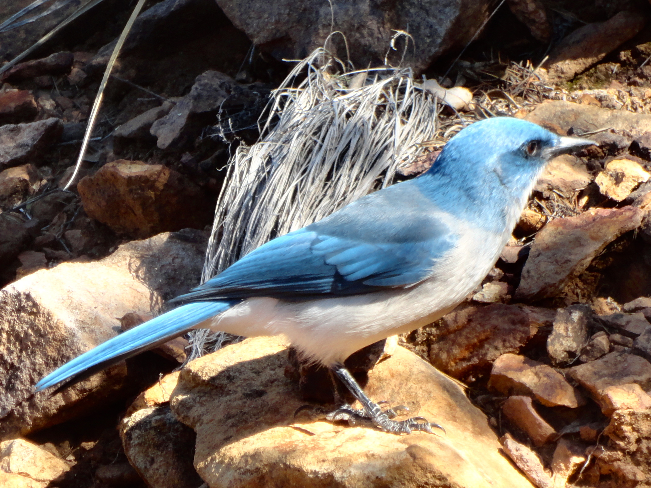 Aphelocoma wollweberi, Laguna Meadow Trail at Big Bend National Park, Texas